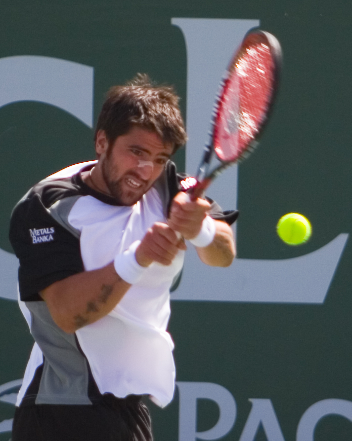 Janko Tipsarevic at Indian Wells in 2008